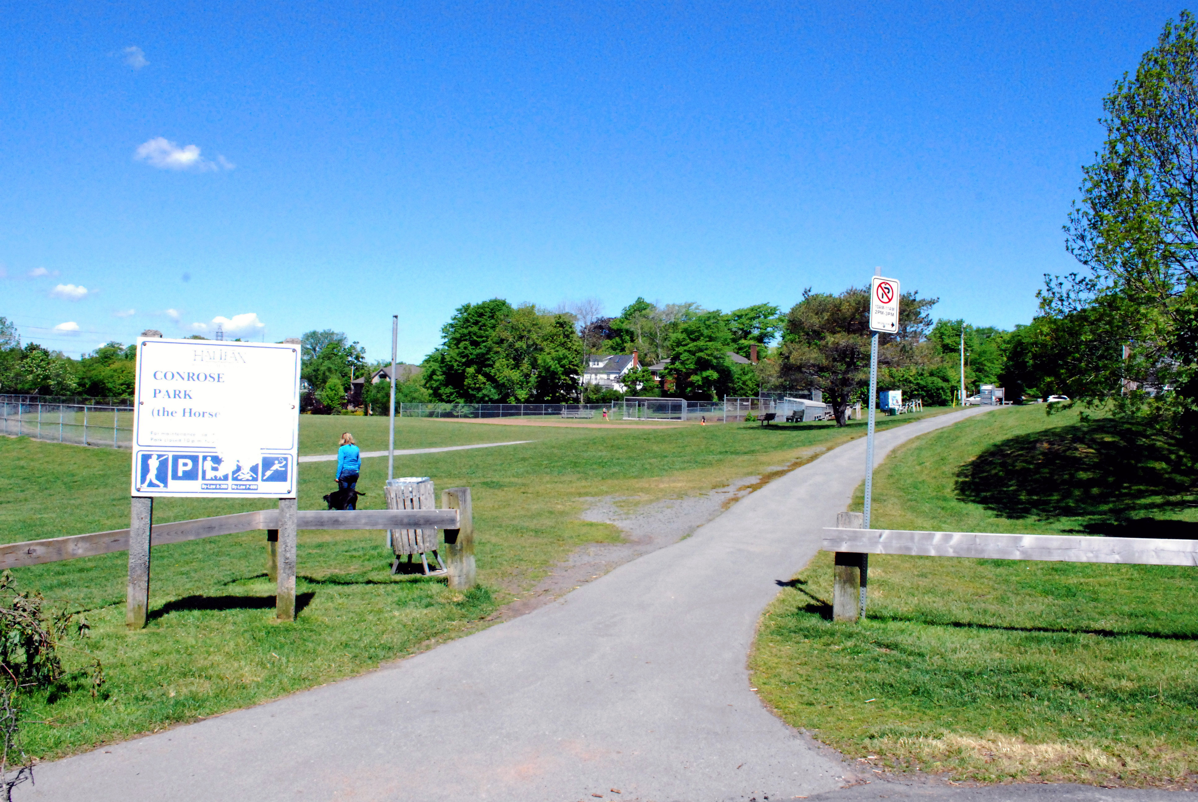 The path through Conrose Park to Jubilee, with Conrose Field to the left.